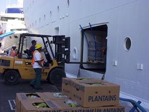 Provisioning a Cruise Ship in Charlotte Amalie, USVI